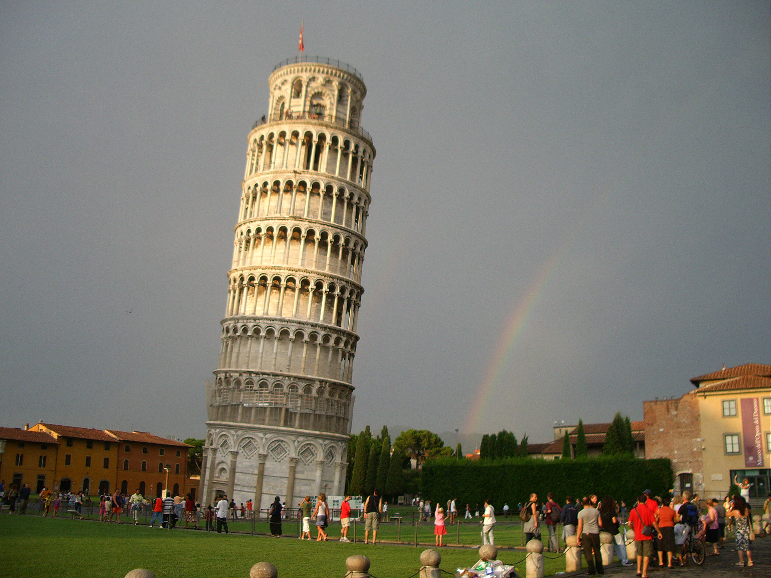 Piazza dei Miracoli (Pisa)